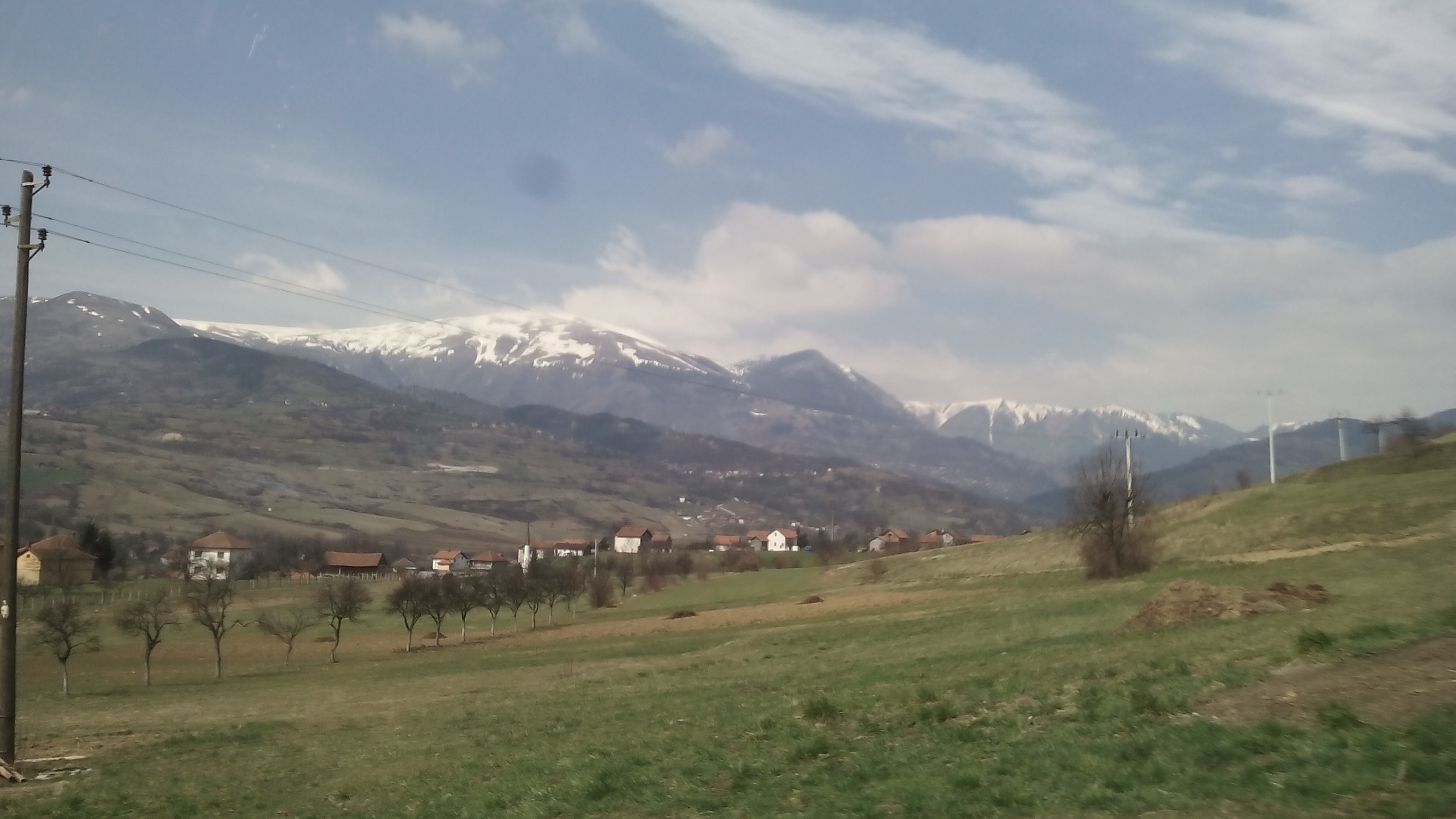 Han Bila and Vlašić